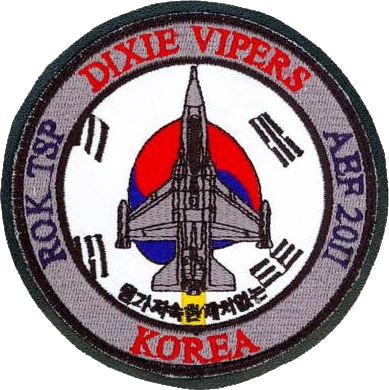 100th Expeditionary Fighter Squadron - Emblem